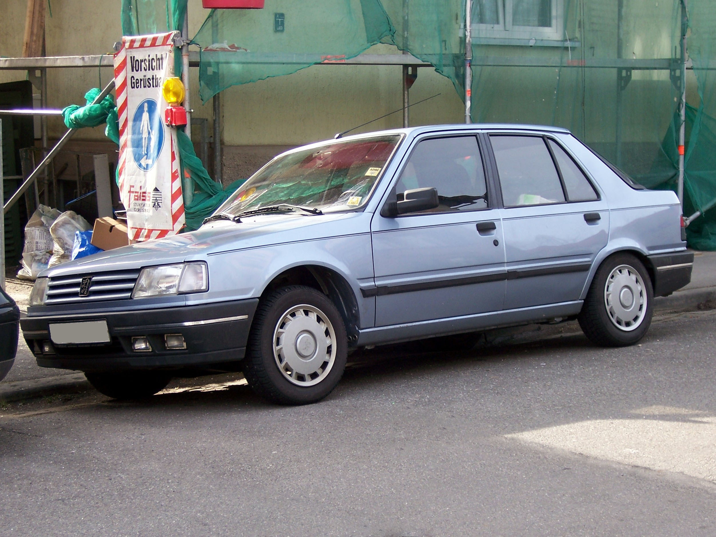 Peugeot 309 5d Mk2 front view